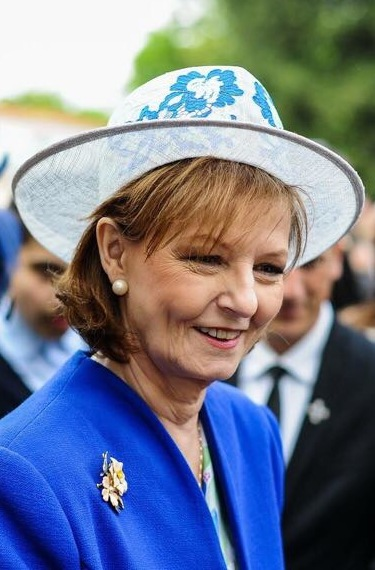 Crown Princess Margareta amongst the Monarchist crowd at the Elisabeta Palace Garden Party